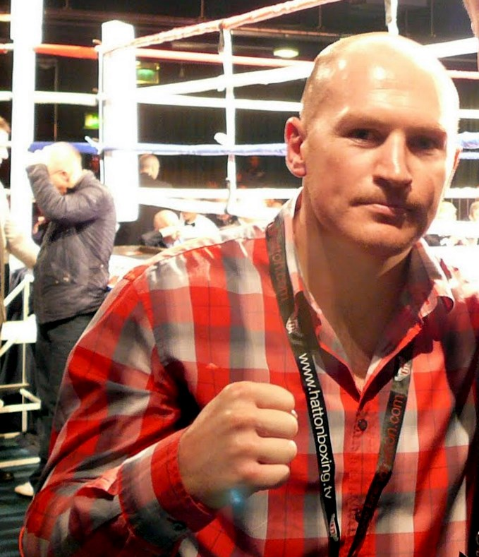 An English boxer, Matthew Hatton.